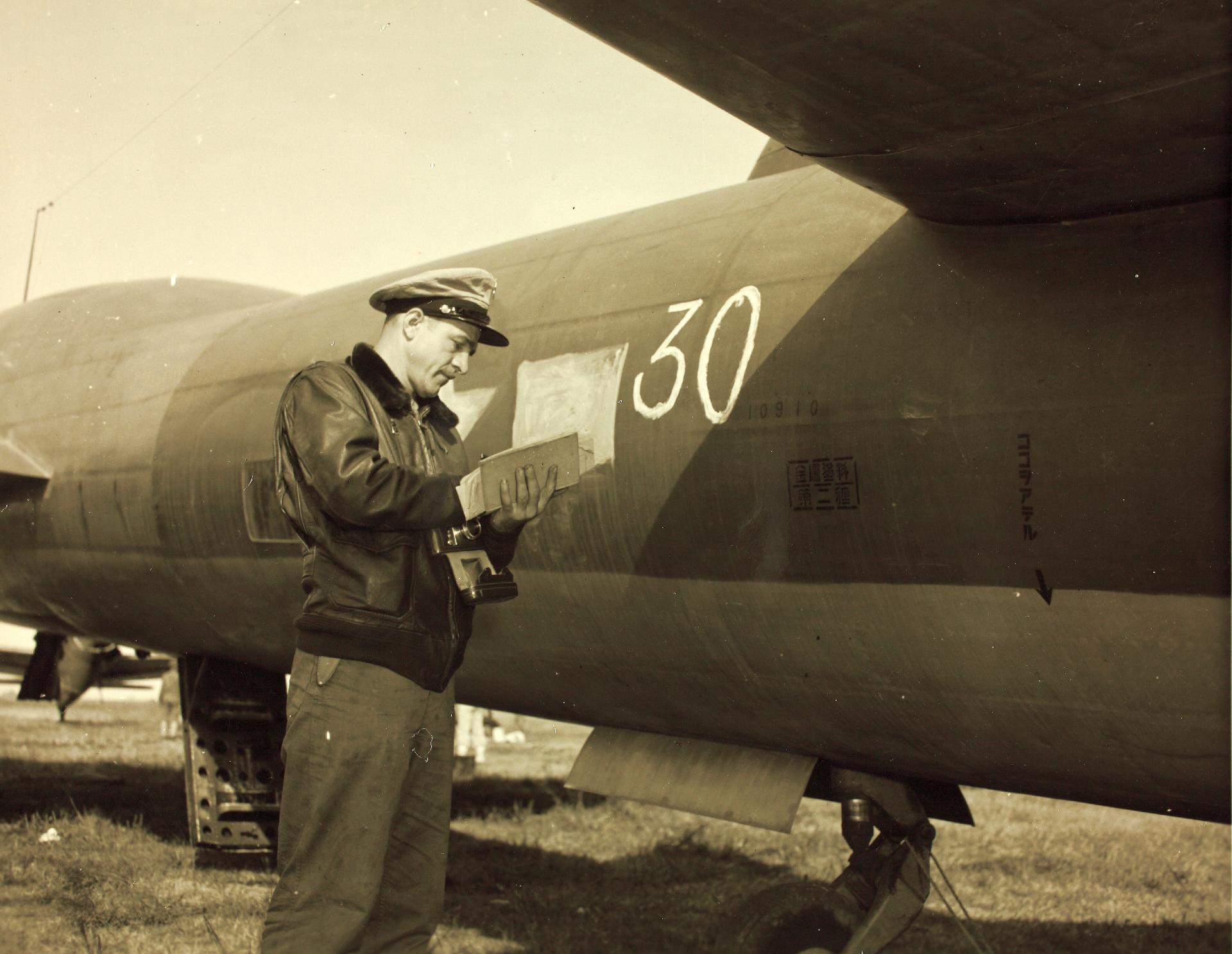 A United States Army Air Forces airman makes notes on a captured Mitsubishi Ki-67 bomber. Note hand-painted U.S. insignia on fuselage.